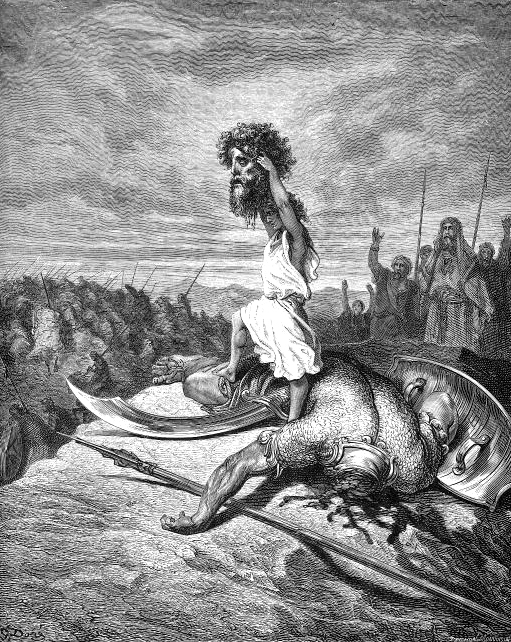 The young Hebrew David hoists the head of the Philistine Goliath